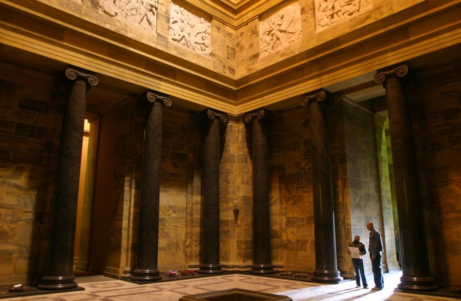 A view inside the Shrine of Remembrance. The frieze visible at the top of this image is by Pietro Porcelli.